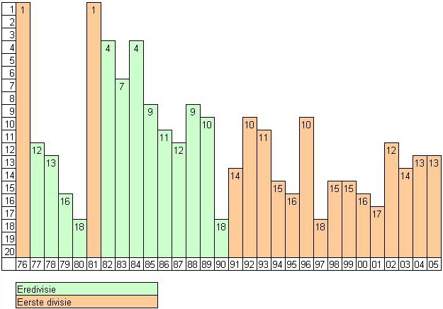 Dutch league positions of Haarlem, last 30 seasons